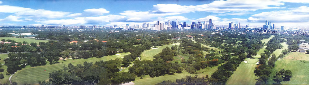 The Manila Golf and Country Club